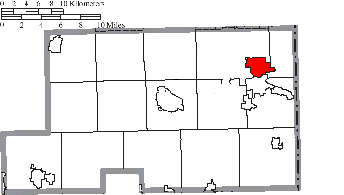 Map of the municipal and township boundaries of Mahoning County, Ohio, United States, as of the 2000 census, with the location of the city of Campbell highlighted. Township borders are shown only in unincorporated areas in order to differentiate incorporated and unincorporated areas more clearly.